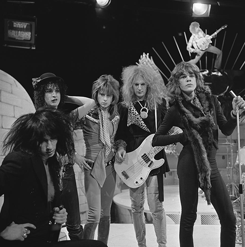 New York Dolls in AVRO's TopPop (Dutch television show) in 1973